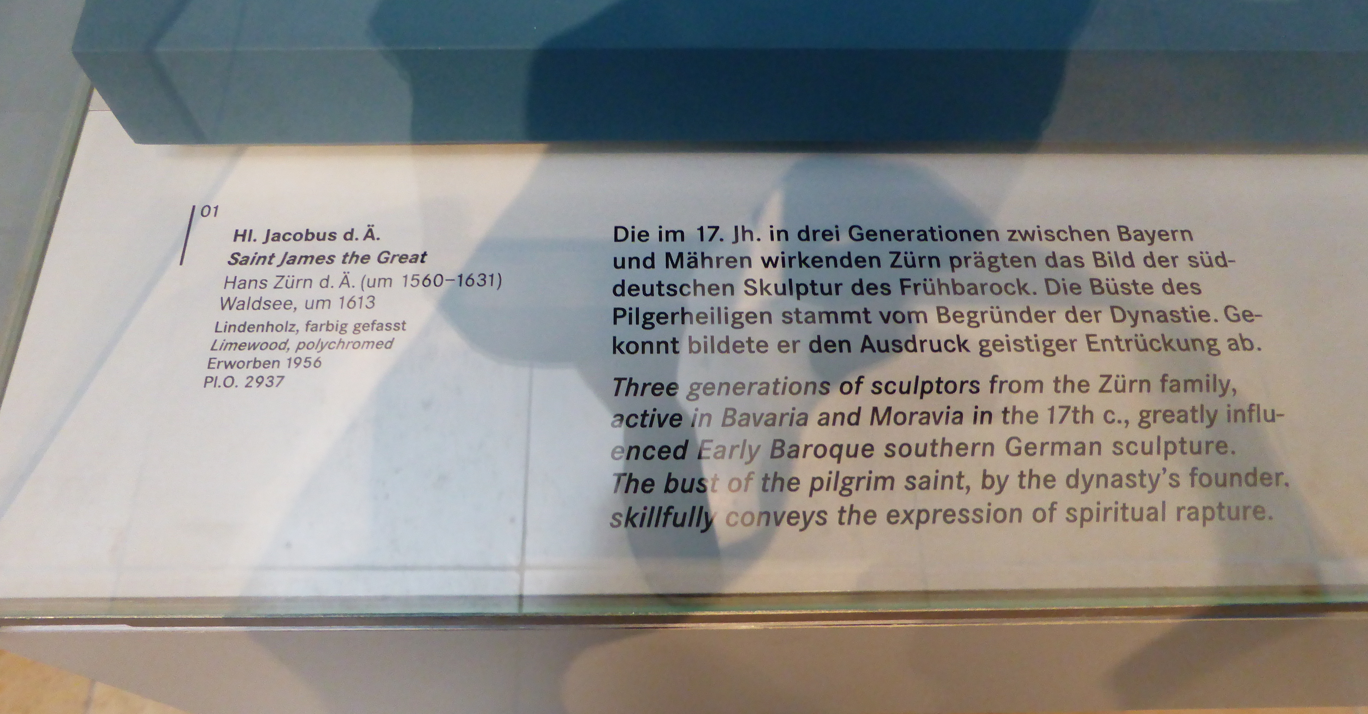 Germany, Bayern, Nuremberg Germanisches Nationalmuseum Native nameGermanisches NationalmuseumLocationNuremberg, Bavaria, GermanyCoordinates49° 26′ 54″ N, 11° 04′ 32″ E Established1852Web page control : Q478695 VIAF: 141301188 ISNI: 0000 0001 2161 603X ULAN: 500303791 LCCN: n81047063 NLA: 36224635 WorldCat institution QS:P195,Q478695